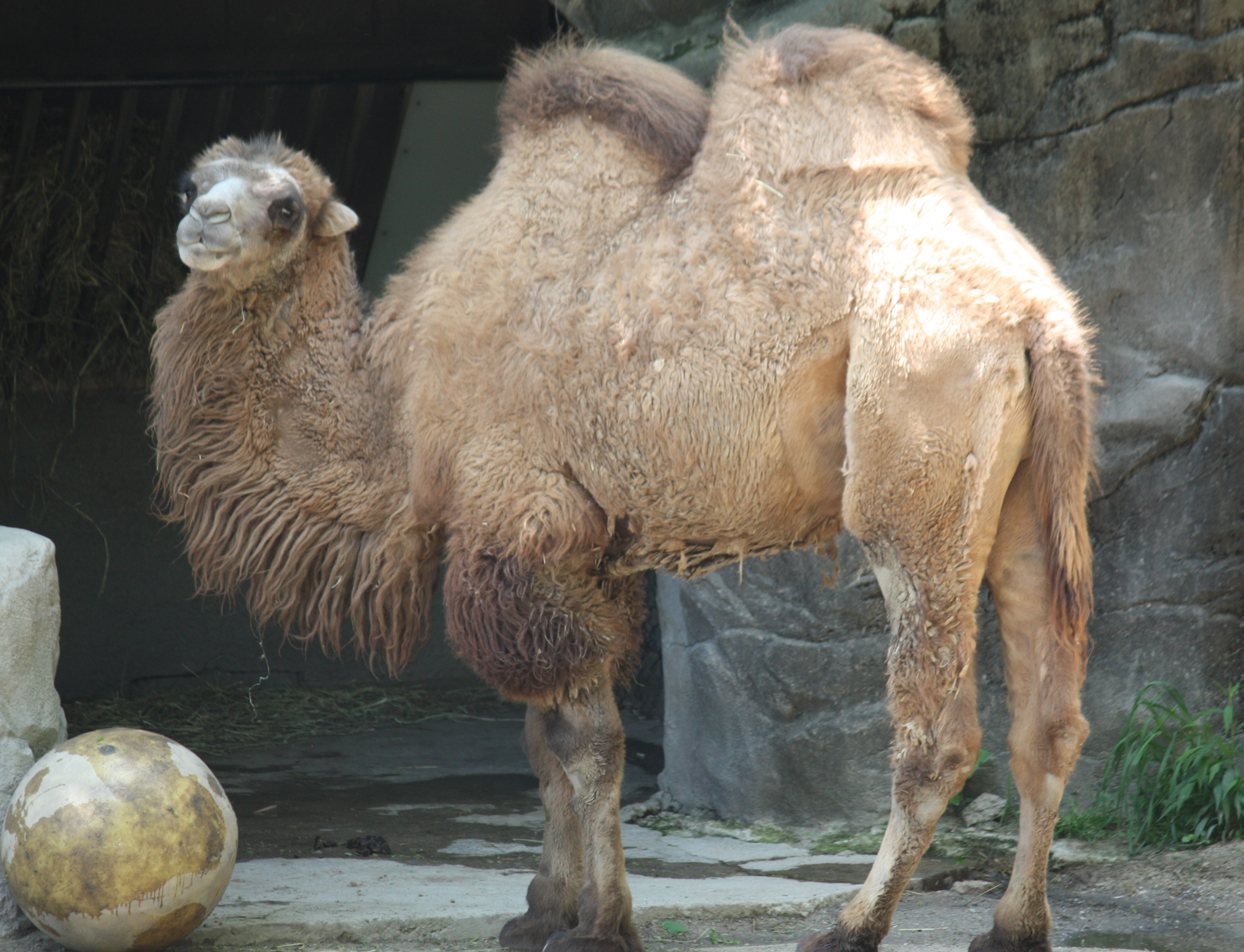 Bactrian Camel Camelus bactrianus at the Cincinnati Zoo